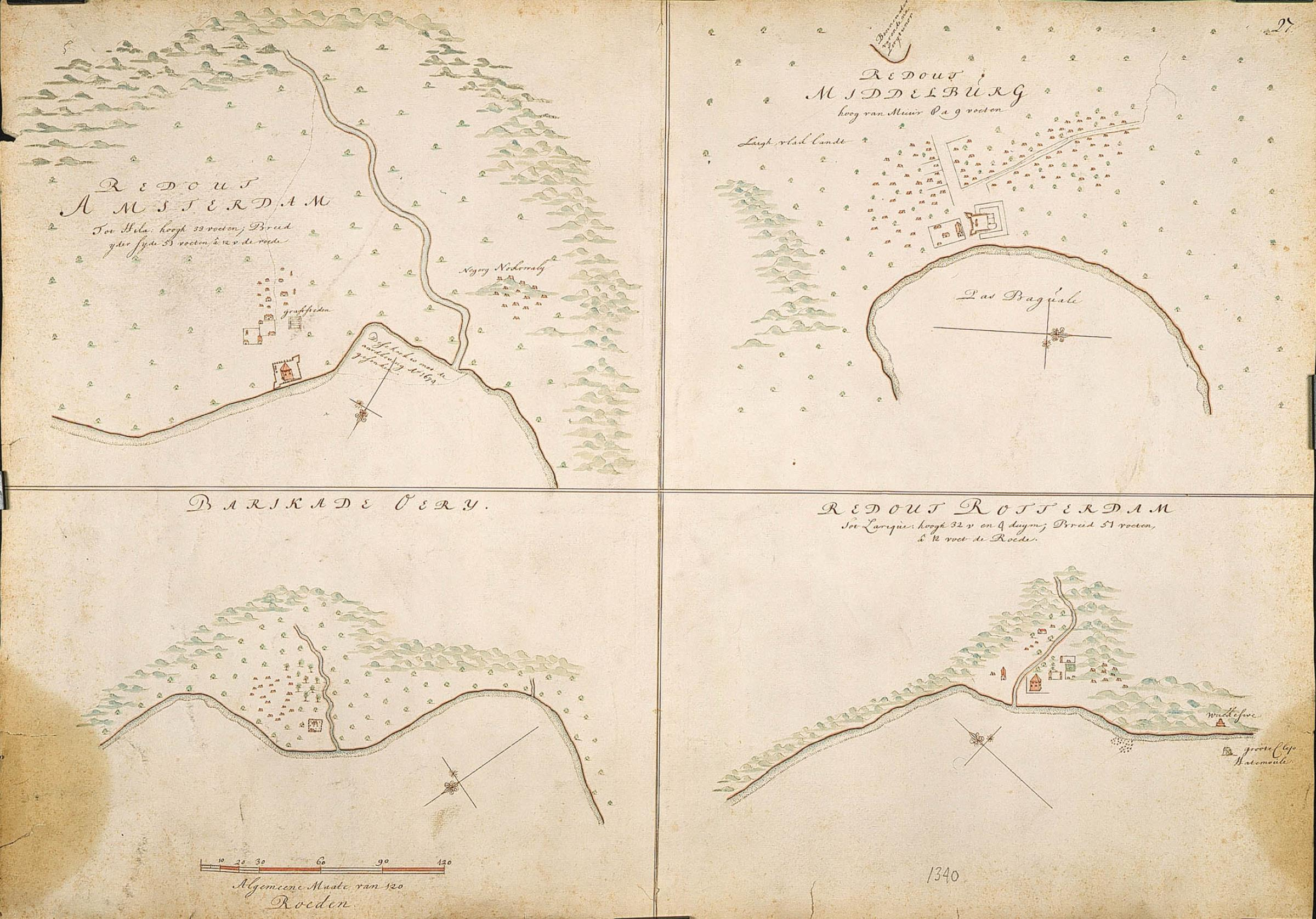 According to the Leupe catalogue (NA), the original title reads: De redout Amstedam tot Hila. VEL1340a: De redout Middelburg, Pas Baguela. VEL1340b: De redout Rotterdam tot Larique. VEL1340c: De barricade Oery. Numbered top right:27. The left hand side and bottom edge are torn in several places. Notes on reverse: 32 [in pencil, difficult to read]/652 t.